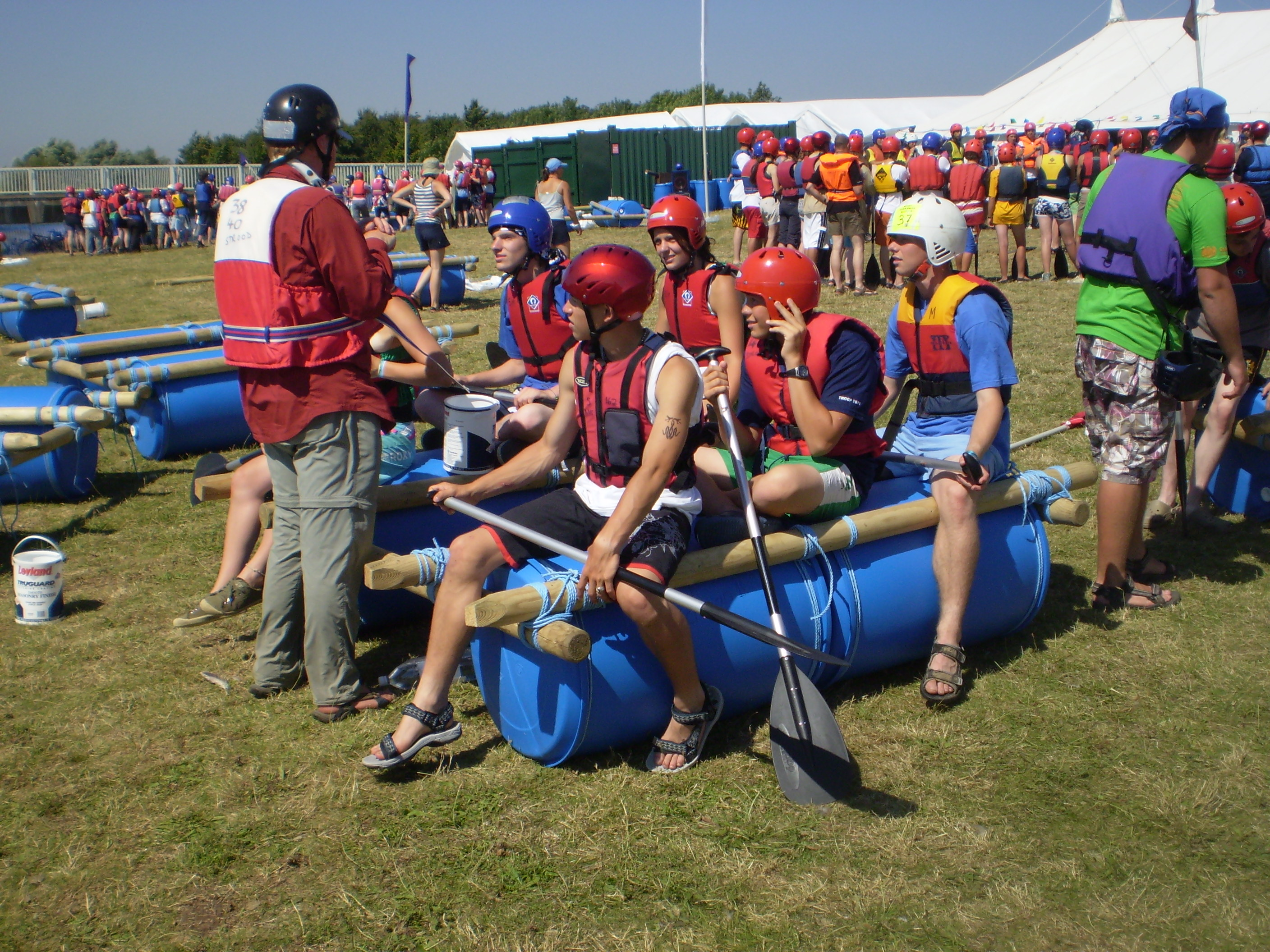 The Splash activity at the 21st World Scout Jamboree